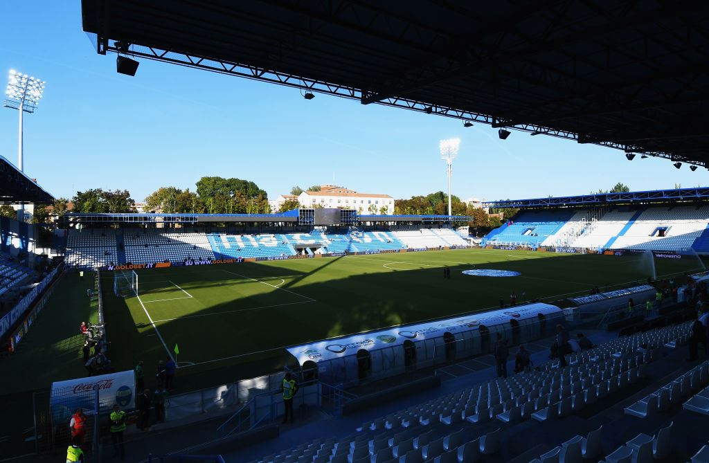 Internal view of the stadium from the main stand.